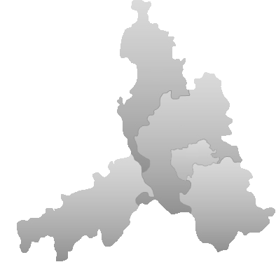 Map of Foshan in Guangdong province.